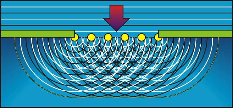 Diffraction of wave is described by Huygens' principle